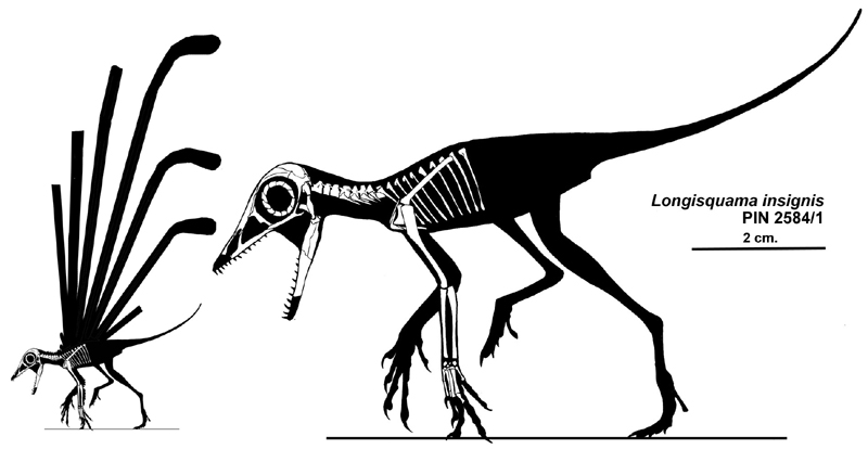 The holotype of Longisquama insignis, PIN 2584/4, reconstructed as preserved from distinct bones on the type slab. Inset shows outline of body with impressions of "fronds" extending from the back, and arm-related ornamentation â€” possibly scales.